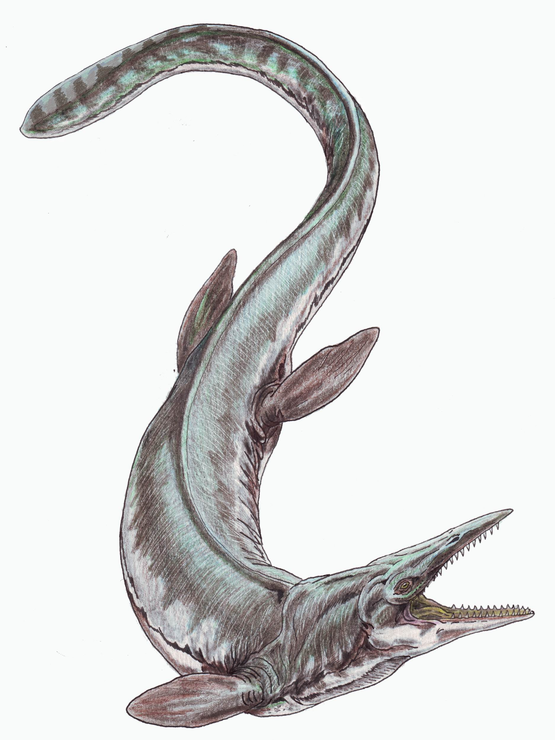 Tylosaurus proriger - revised version